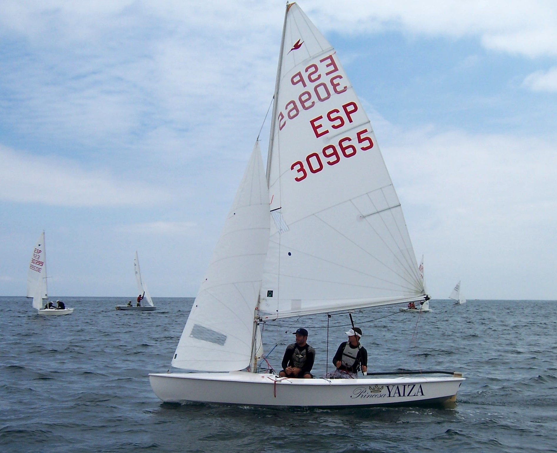 Rayco Tabares & Gonzalo Morales at Spain's 2011 Snipe Nationals in Gijón